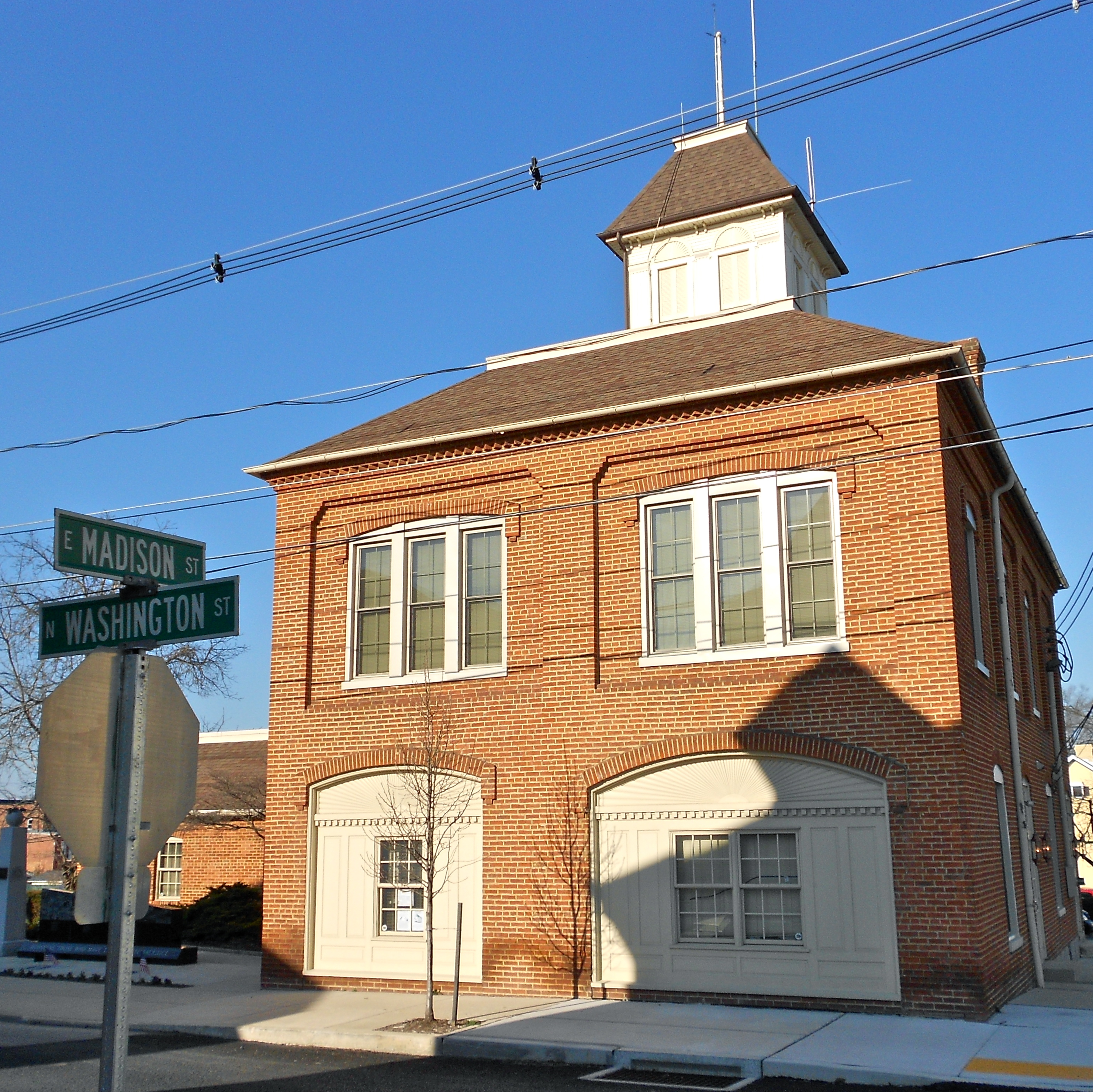 Greencastle Police Department in Greencastle Historic District on the NRHP since December 24, 1992. PD is at SW corner of Madison and Washington. Historic District is roughly bounded by Washington, Pennsylvania Route 2002, Jefferson, Mifflin, Chambers, Grant and Allison, and Baltimore north to Spring Grove, Greencastle, Franklin County, Pennsylvania.